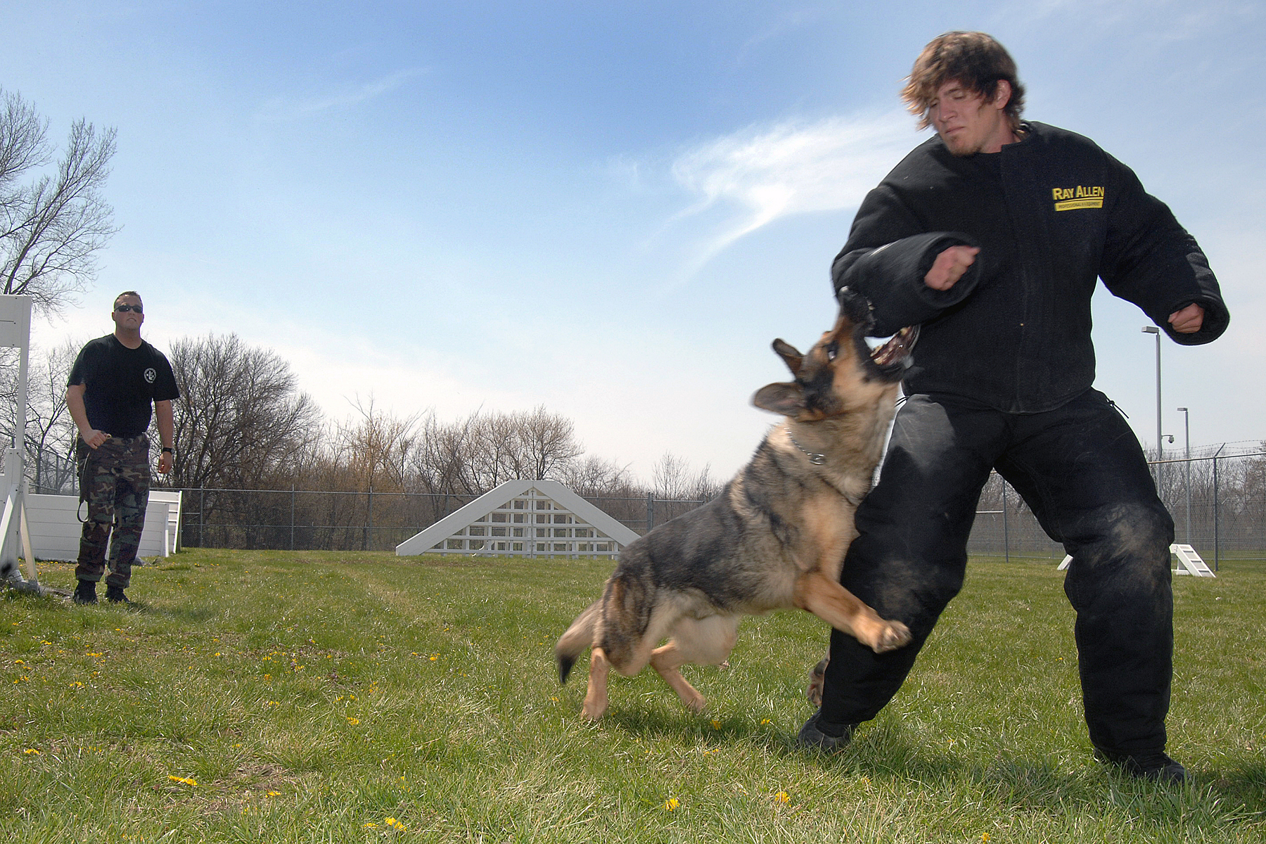 OFFUTT AIR FORCE BASE, Neb. -- Staff Sgt. Bryan Gudmundson, 55th Security Forces Squadron, realeases Norman, a 55th SFS military working dog, to chase down his target, volunteer Cole Tesar, during training April 17. Mr. Tesar is wearing an undergarment bite suit for protection. The Offutt K-9 unit performs regular training to maximize the dogs' effectiveness in the field.